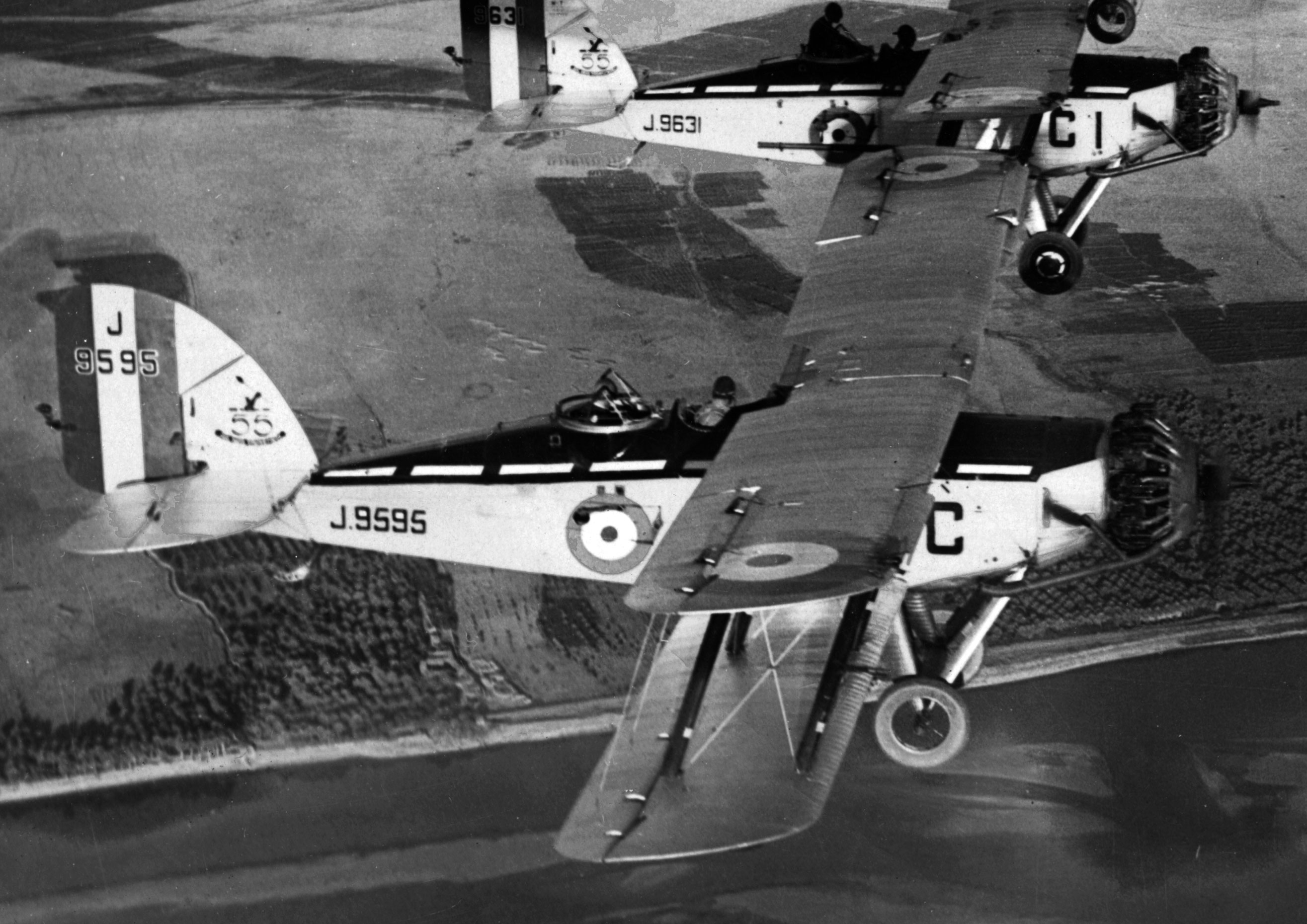 Westland Wapiti IIA 55 Sqdn Royal Air Force